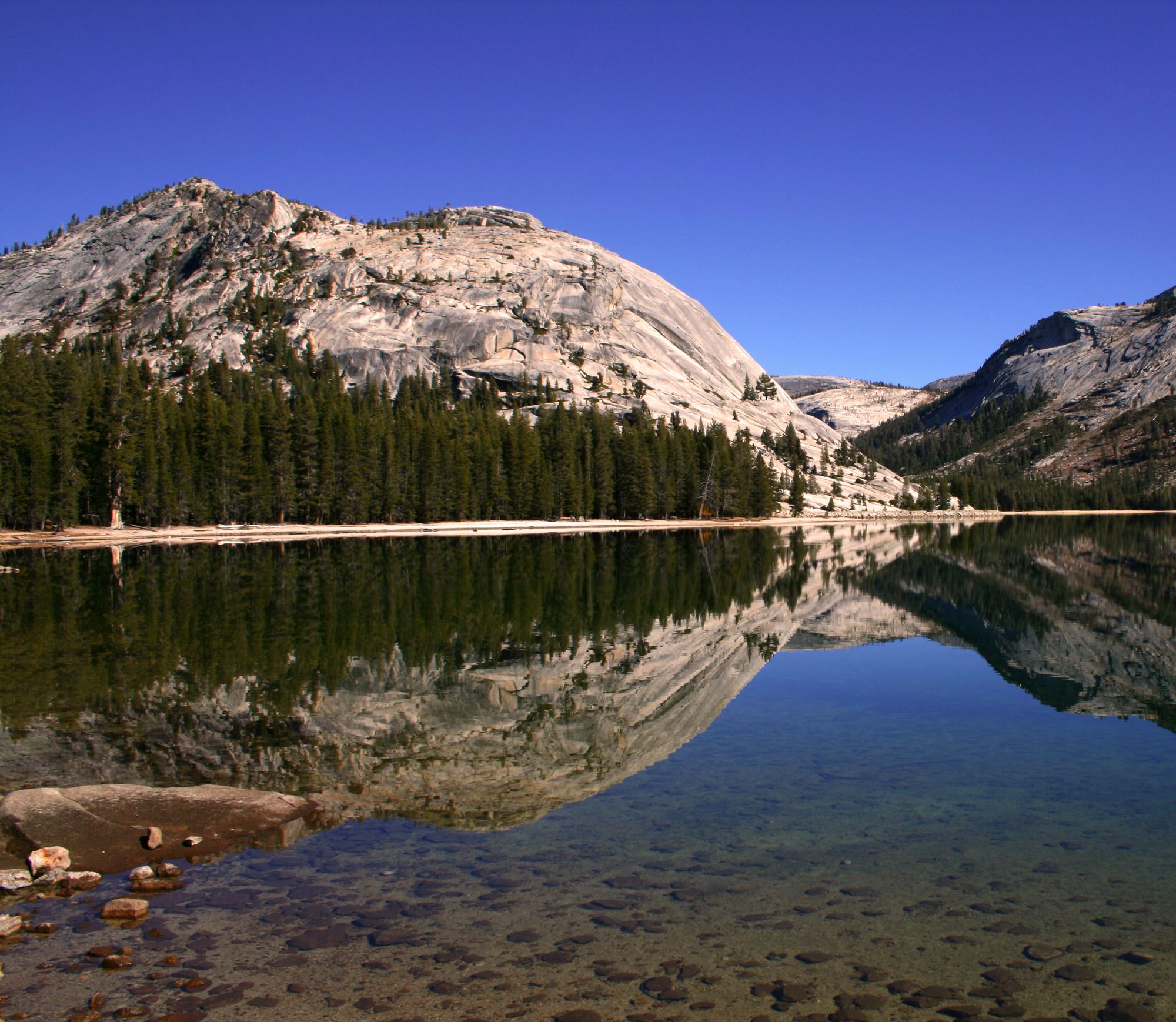 Tenaya Lake. Granite dome is reflectingin the lake. Tenaya Lake is located at Yosemite National Park at Tioga Pass.